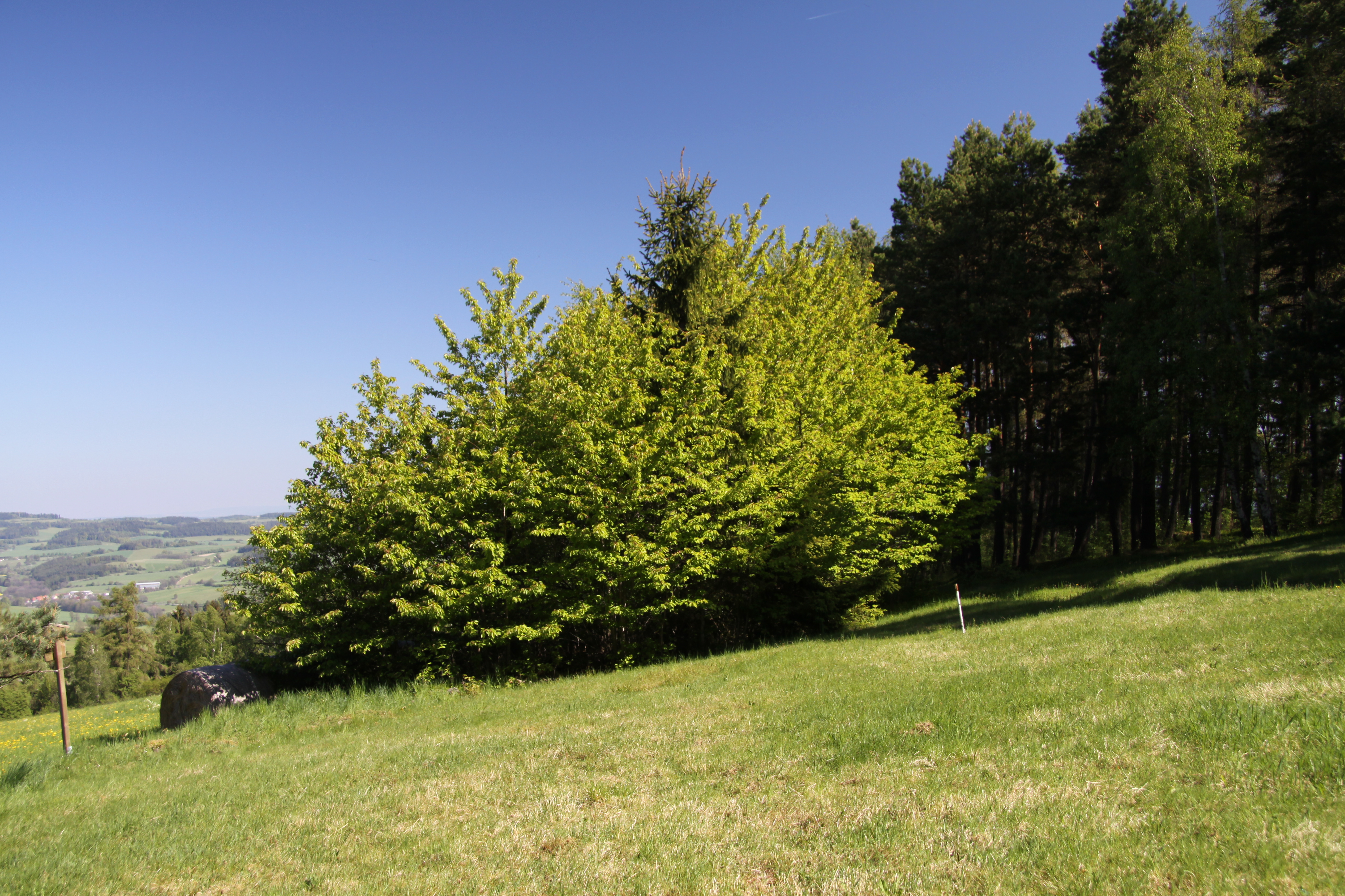 Natural monument Na Vysokém near Čestice village in Strakonice District, Czech Republic. - Google Maps - Google Earth